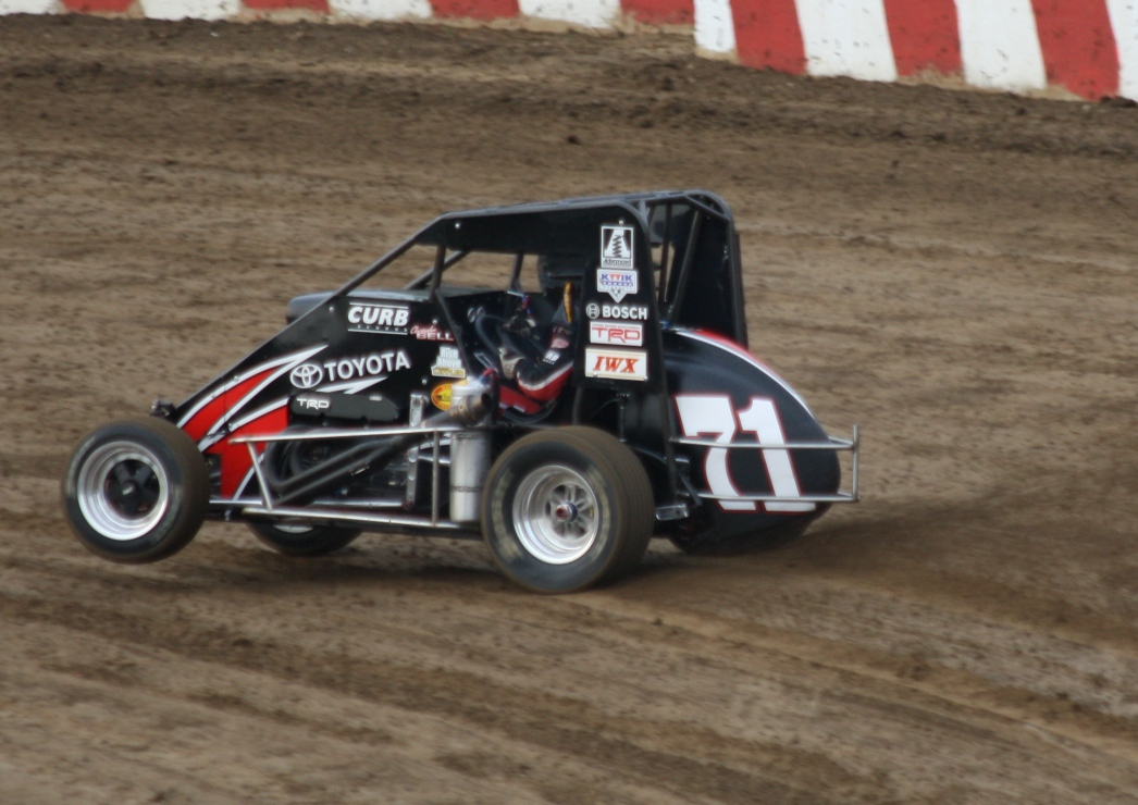 2013 USAC National Midget car champion Christopher Bell practicing at Angell Park Speedway in the middle of the season.